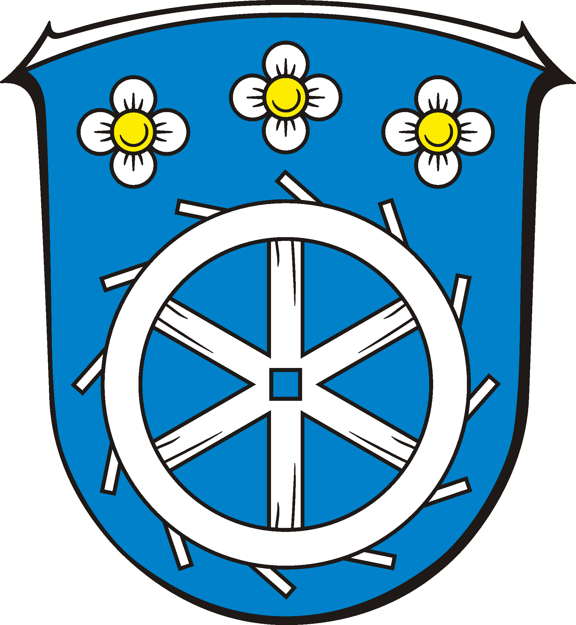 Coat of Arms of Mühlheim am Main